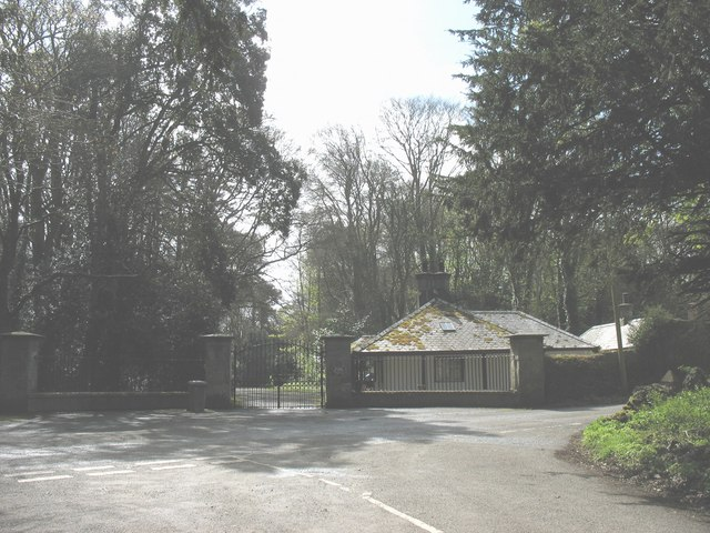 The Front Lodge of Bodorgan Hall from the avenue